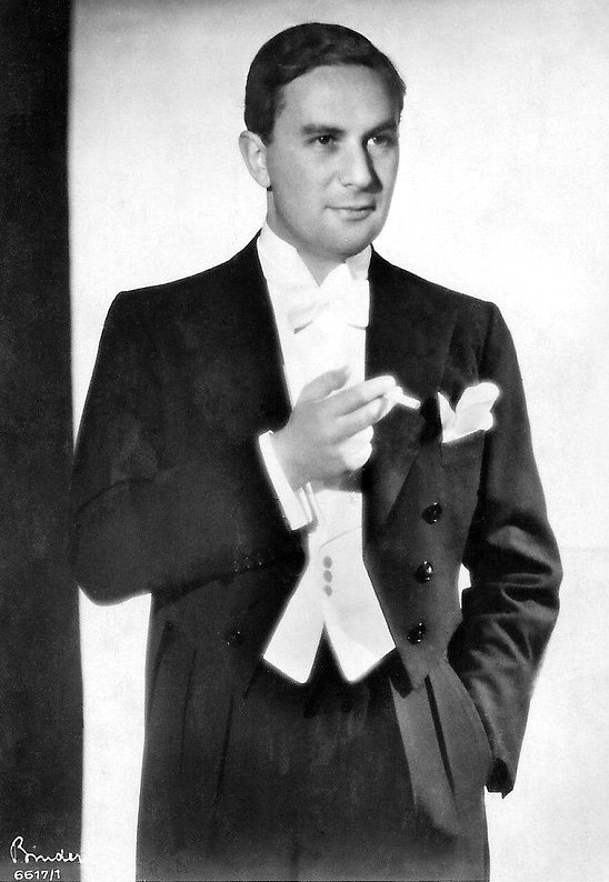 Portrait of Austrian actor Oskar Karlweis (1894–1956) by Alexander Binder.